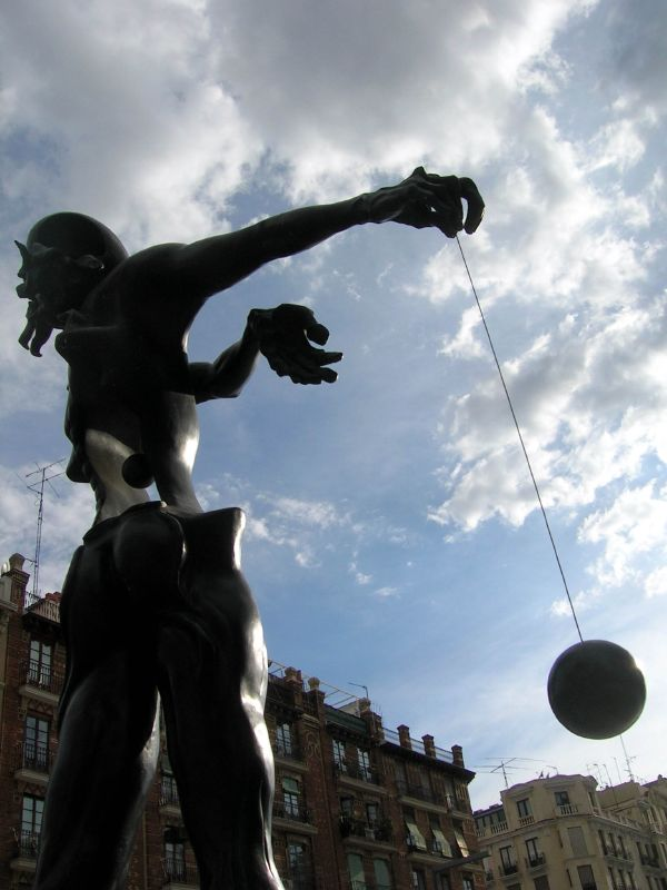 Detail of the monument (popularly known as "Dalí's Dolmen") at the Plaza de Dalí ("Dalí Square") in Madrid (Spain). The whole square was designed by Salvador Dalí (1904–1989) and inaugurated in 1986.